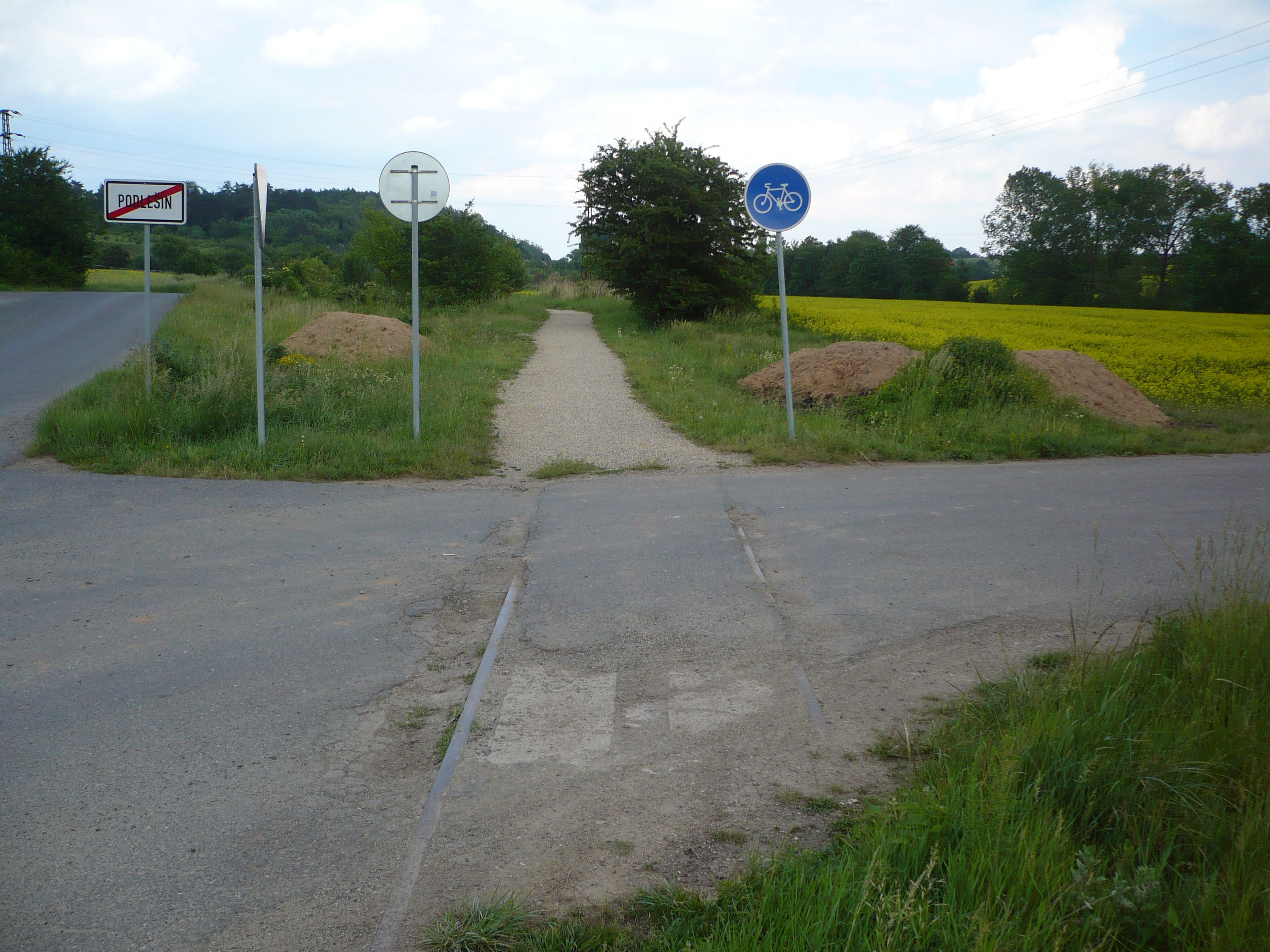 Podlešín, abolished railway line from Zvoleněves